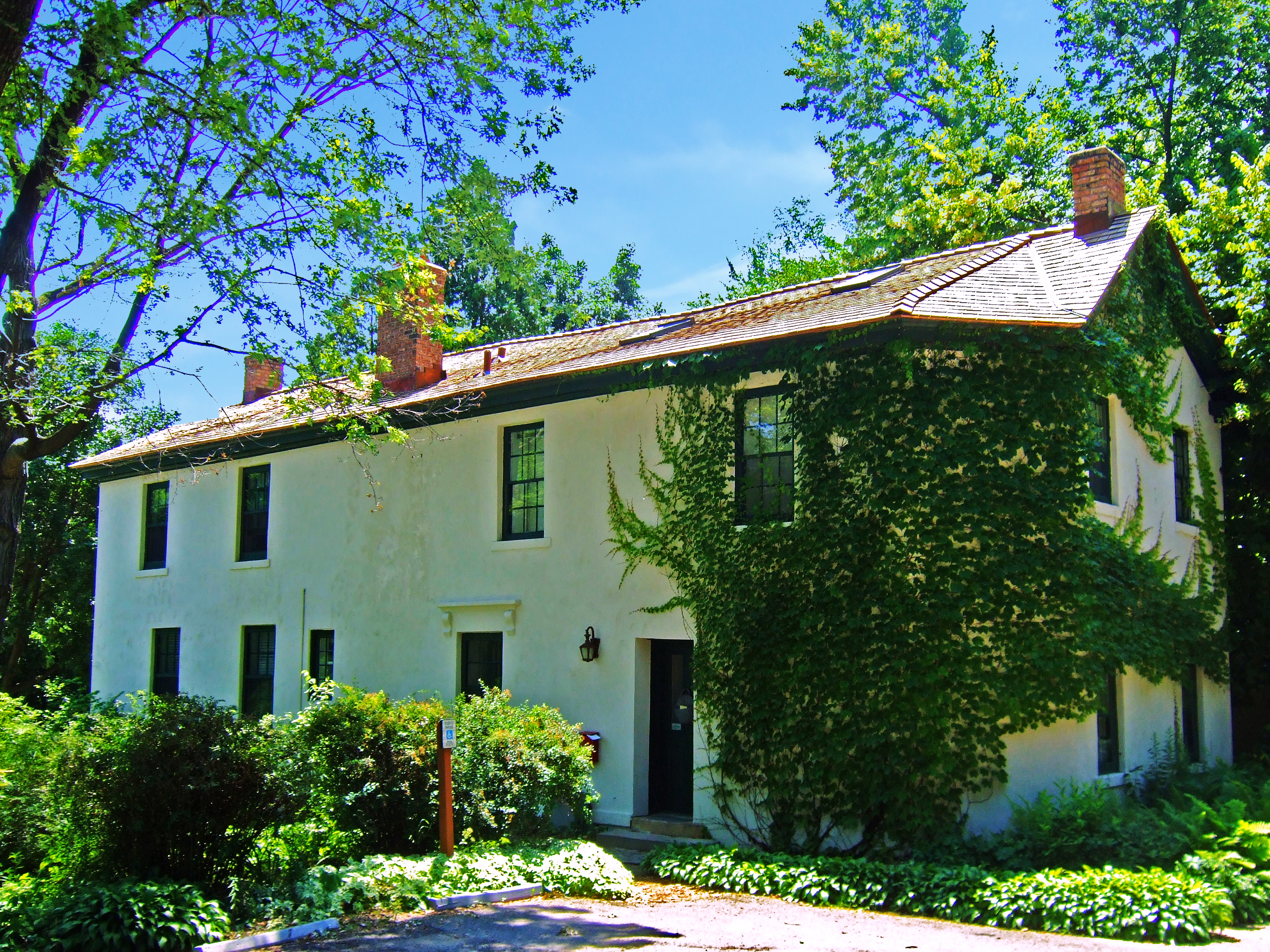 The Plough Inn at 3402 Monroe Street in Madison, Wisconsin, was originally constructed in 1853 by German immigrant August Paunack as a stone house on the Wiota Road. In 1858 it was converted into an inn by Englishman John Ware, who extended it toward the road by a 25-foot brick addition in the Greek revival vernacular style.